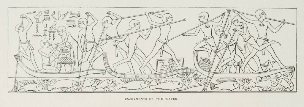 Three ships full of men, showing various common boat-related activities.